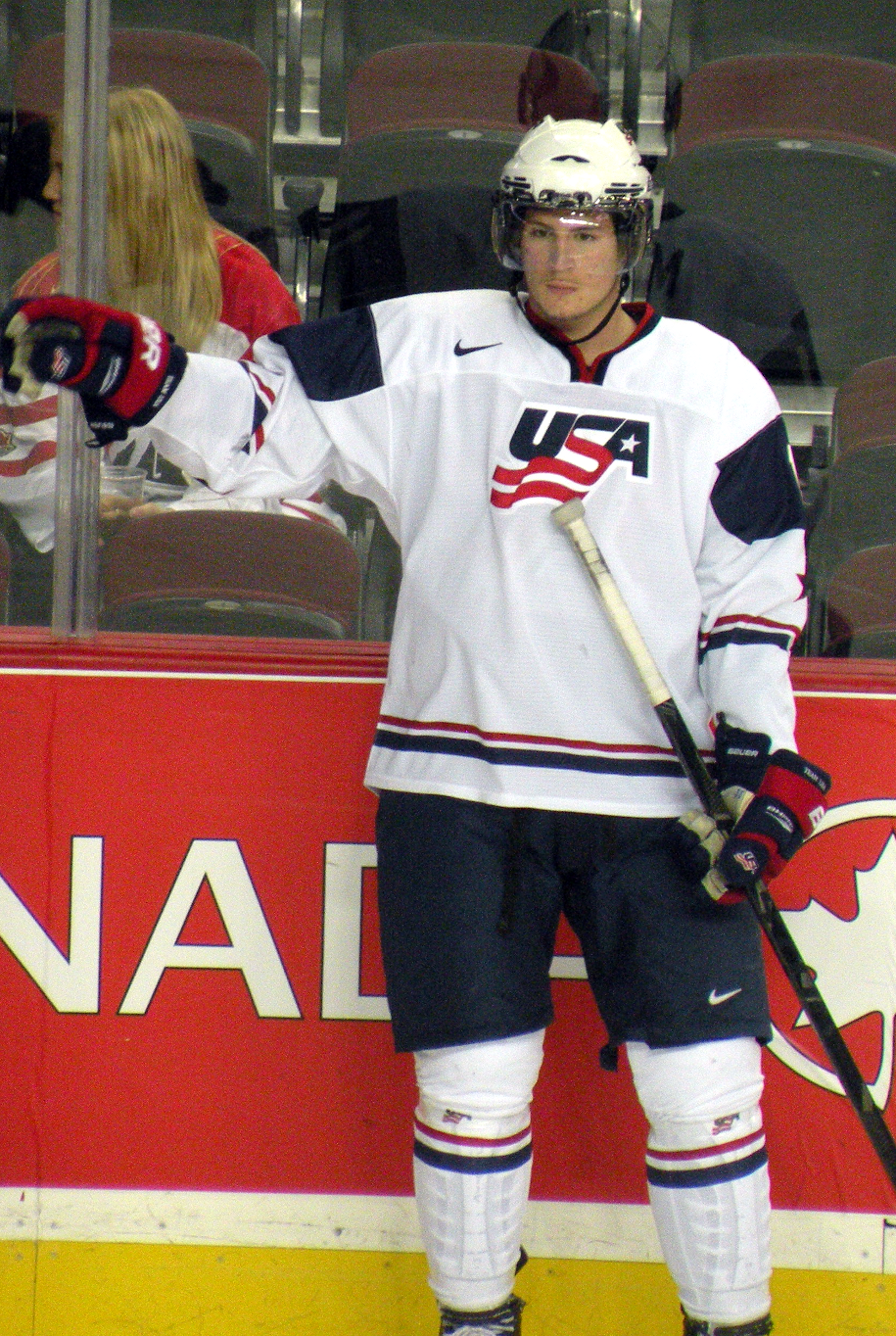 American forward J. T. Miller prior to a game against Team Switzerland at the 2012 World Junior Hockey Championships in Calgary, Alberta, Canada.